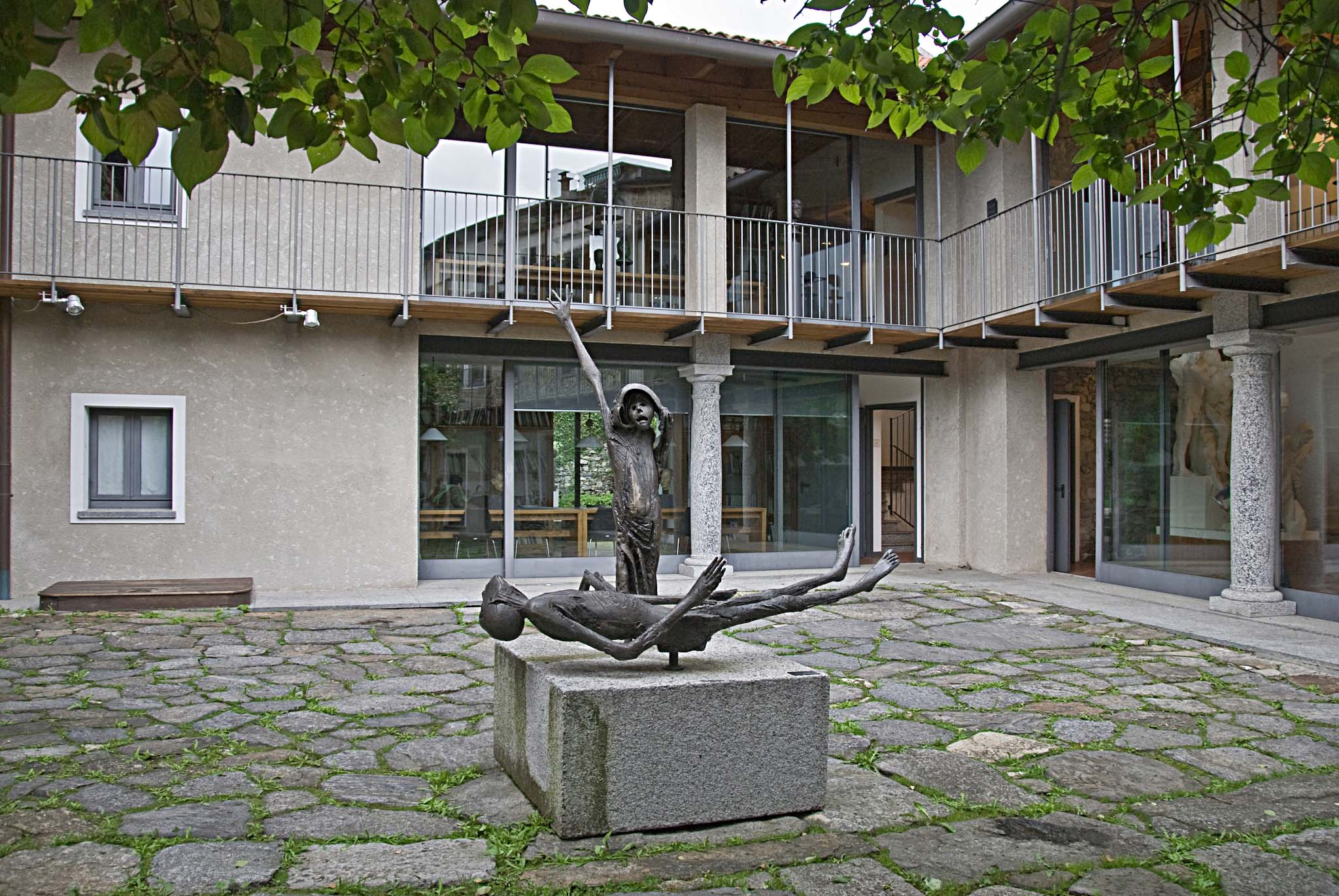 Il cortile, ph Sara Baroni